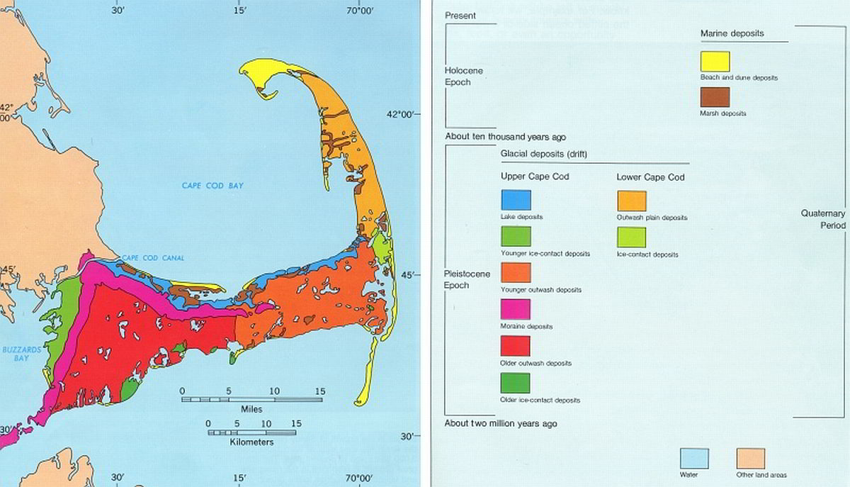 Geologic map of Cape Cod (generalized from detailed mapping). The distribution of the glacial deposits on Cape Cod is shown by the generalized geologic map. Most of the drift has been fashioned into either moraines or outwash plains. Both features mark positions of the ice front. Moraines are ridges of drift formed by moving ice. Most moraines are formed when the ice front remains more or less in the same place because advance of the glacier is balanced by melting along the ice front.